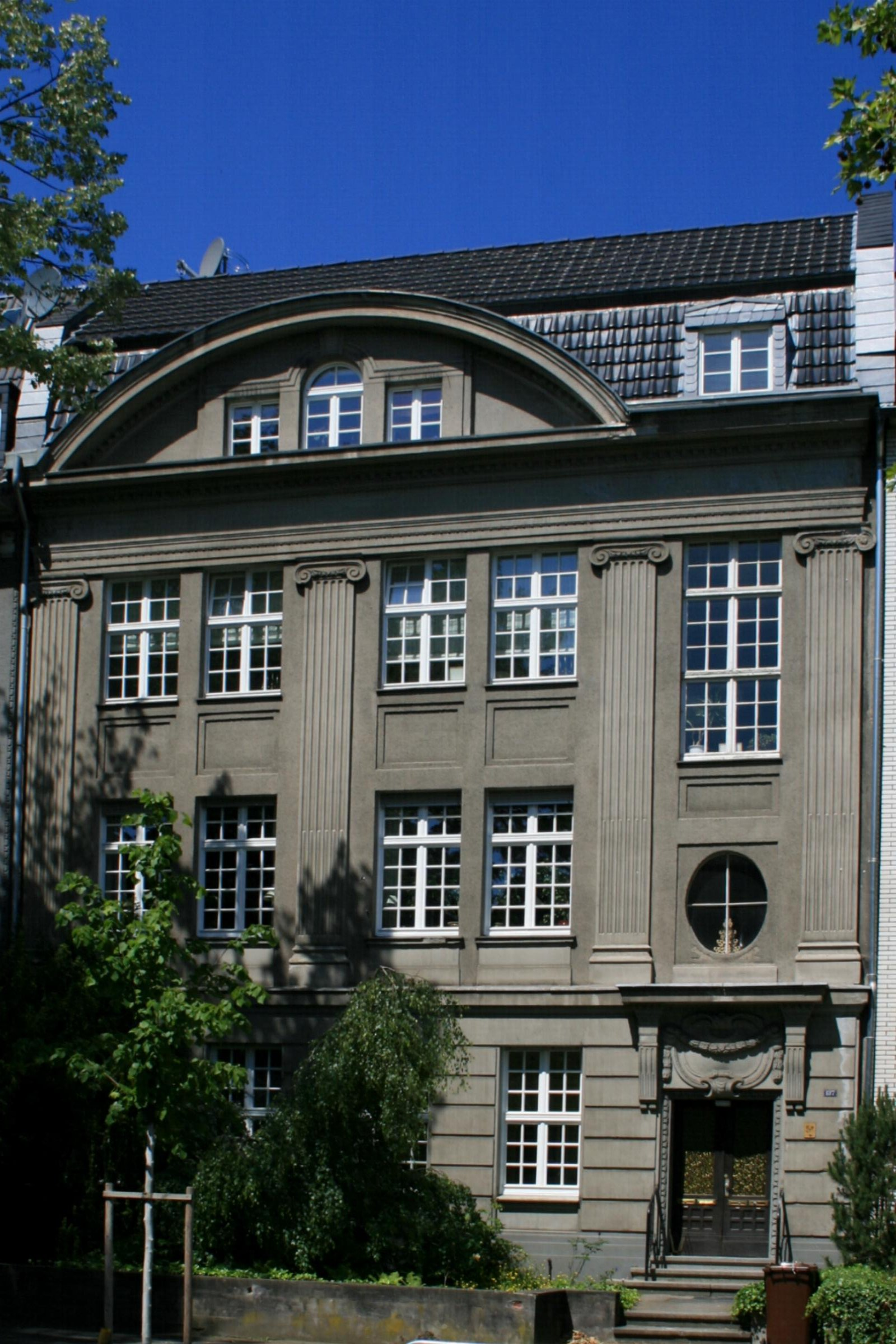 Cultural heritage monument No. H 065 in Mönchengladbach